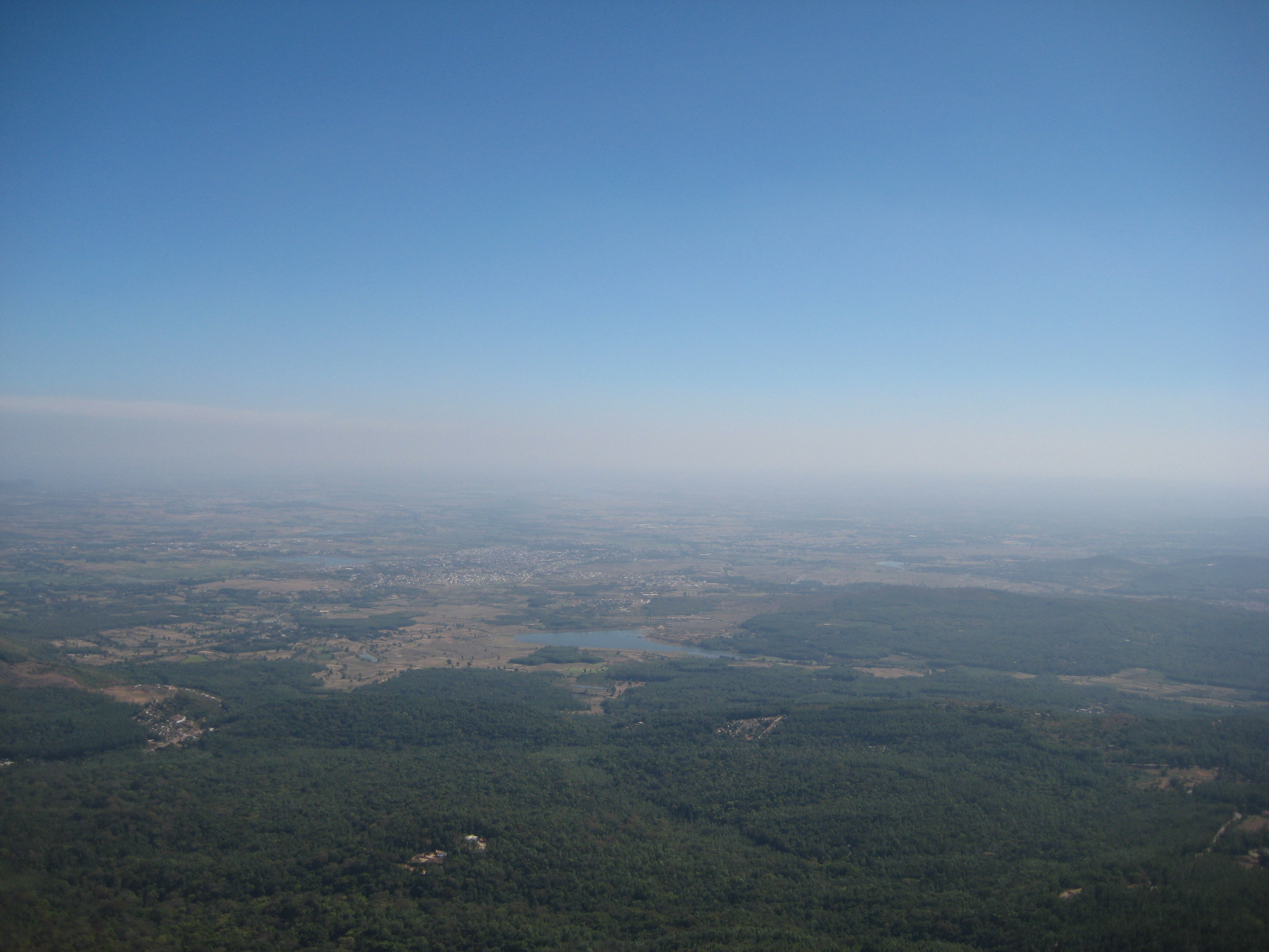 View from Mullayanagiri, The highest peak of Karnataka.